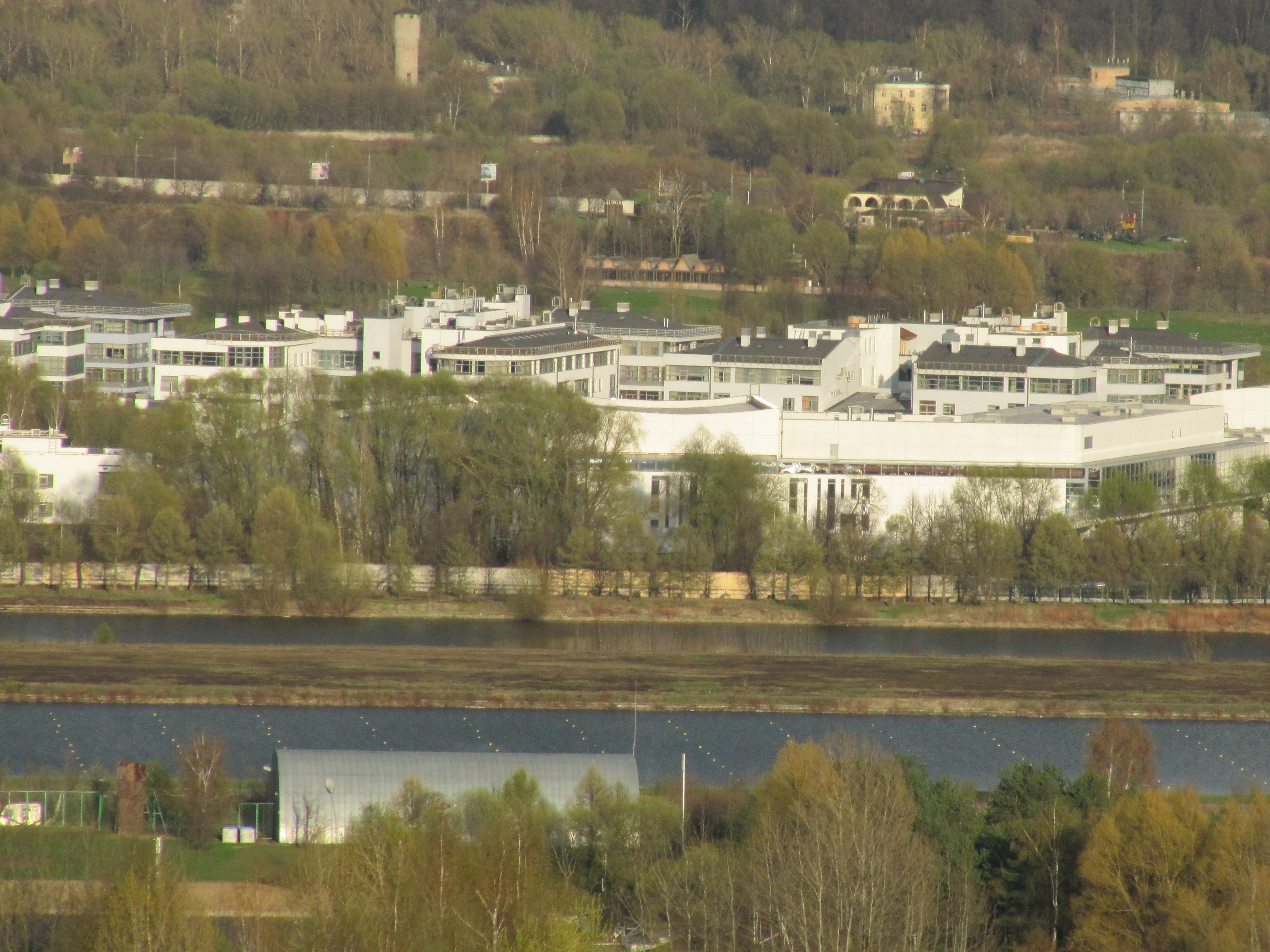 Ostrov Fantaziy